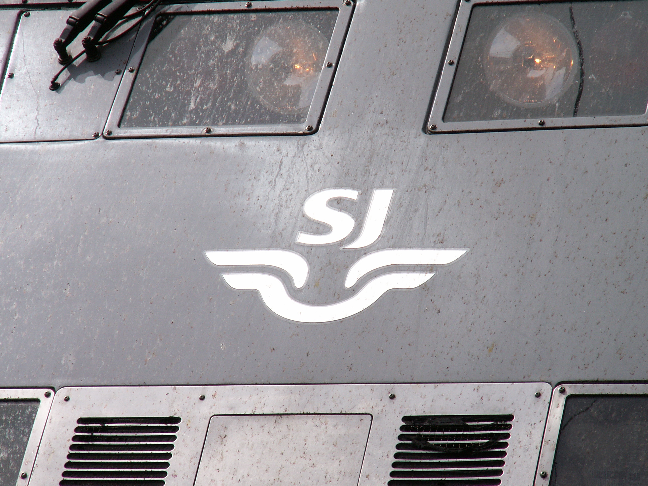 Logo of the Swedish national railway SJ AB on an X2000 high-speed train